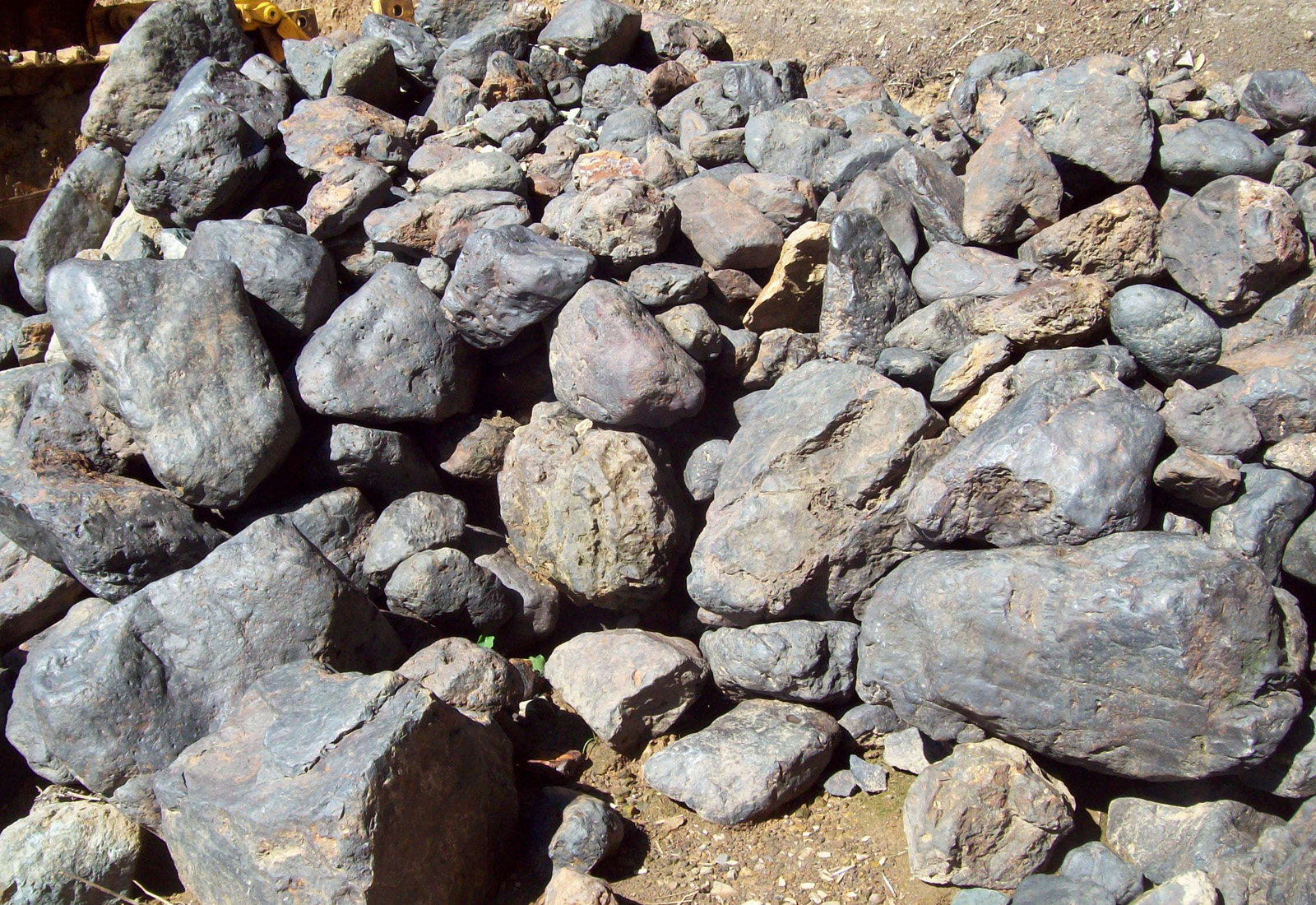 Iron ores in Bayog, Zamboanga del Sur, Philippines